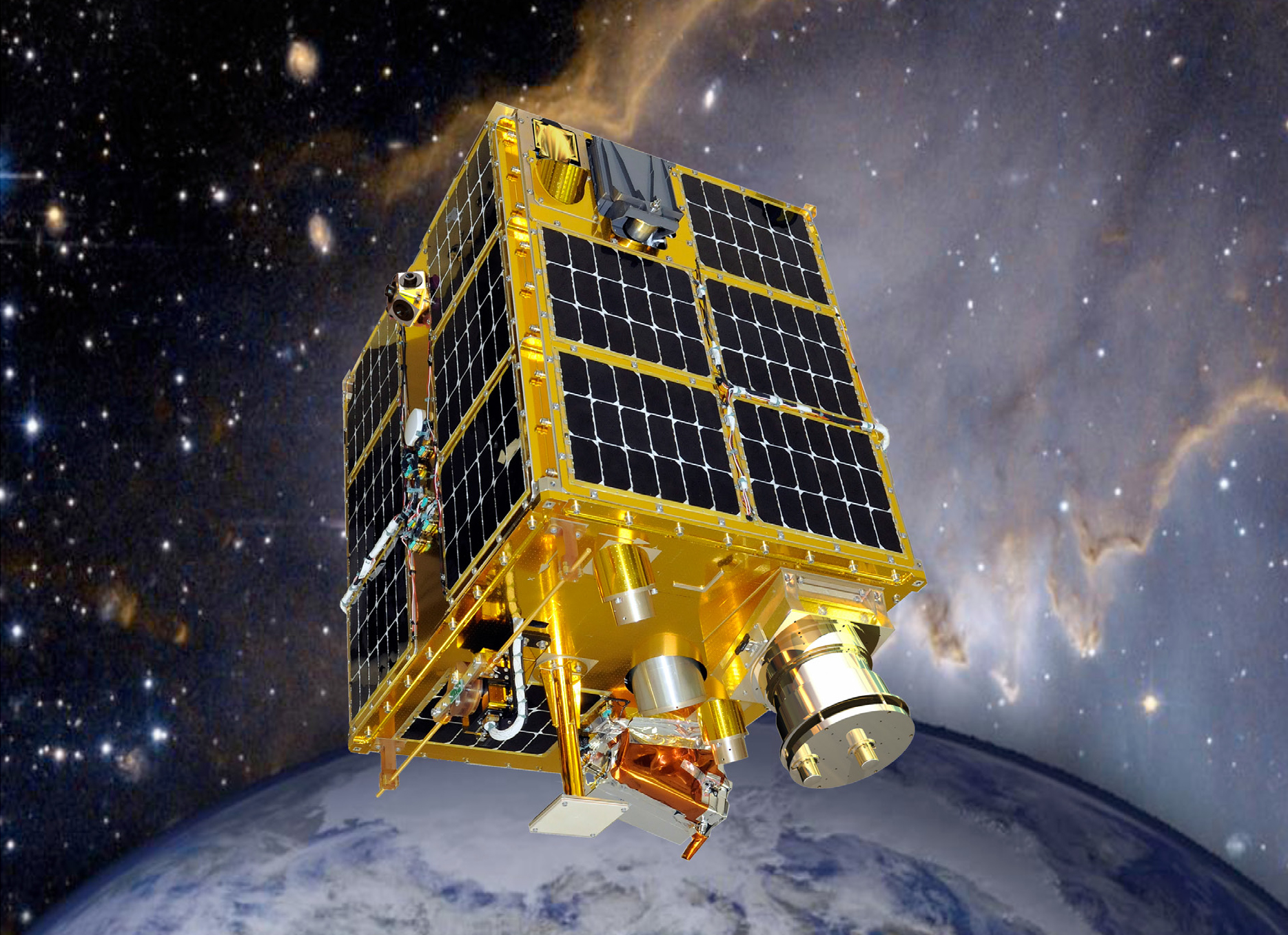 An artist's rendering of the FASTSAT minisatellite in Earth orbit.